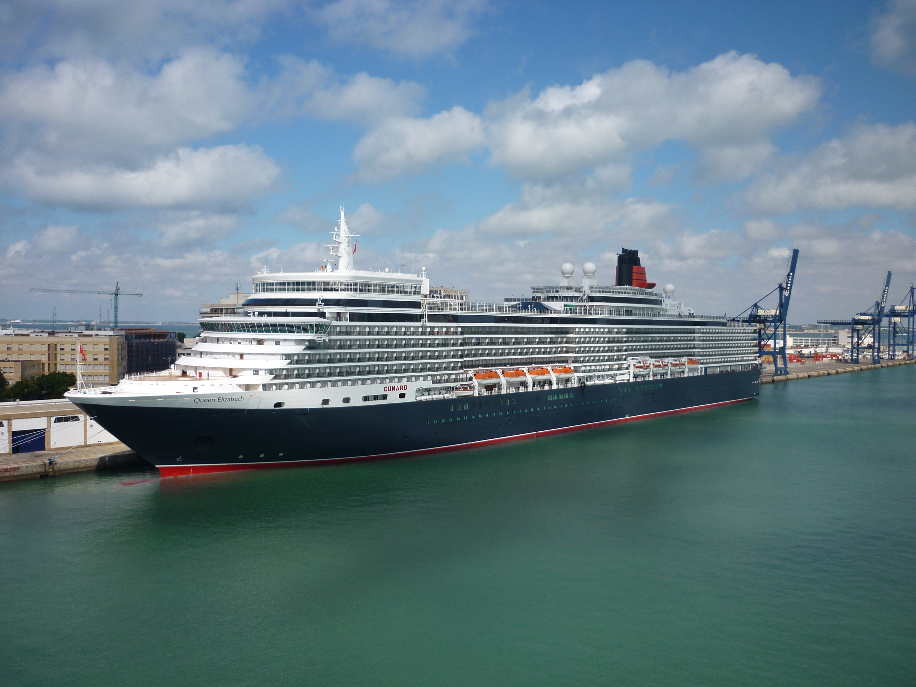 Picture of MS Queen Elizabeth in Cádiz, Spain on her maiden voyage, October 17, 2010